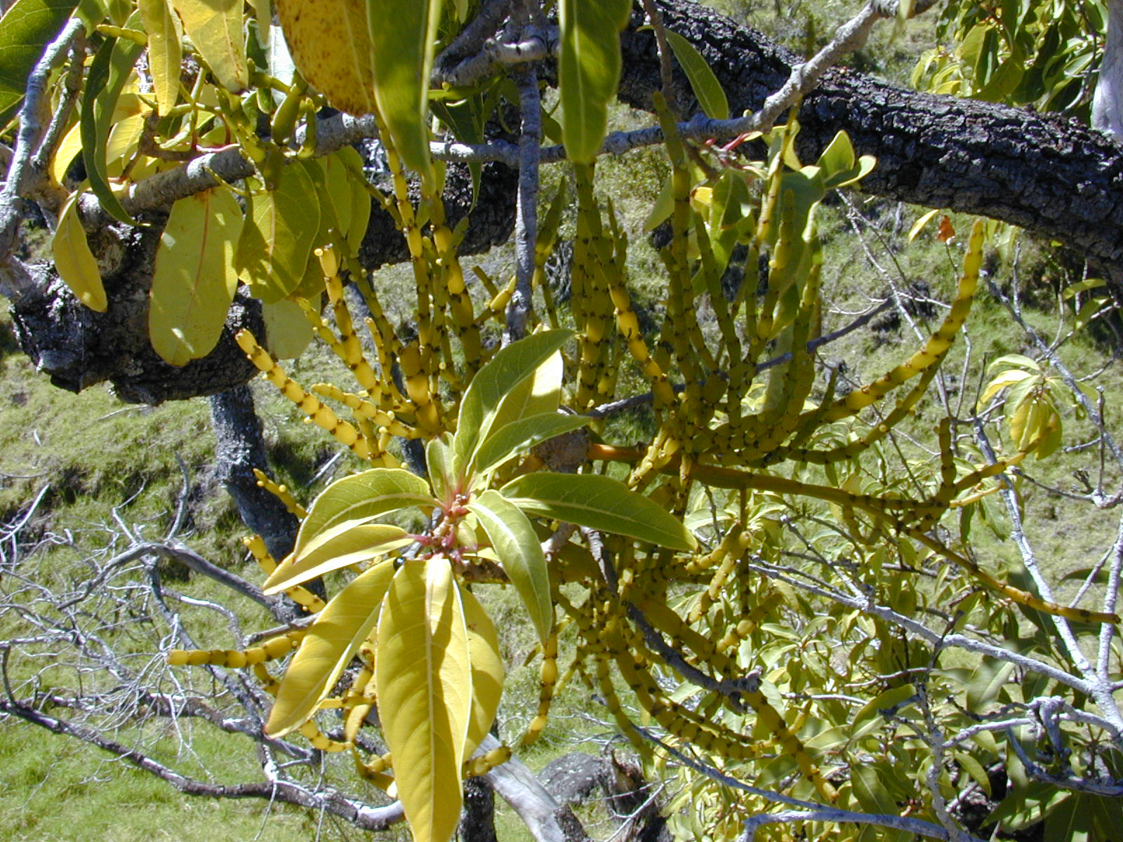 Korthalsella complanata (habit). Location: Maui, Auwahi